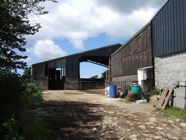 Pen y benglog The name of the farm means 'top of the skull' and appears on the historical map in gothic script. It may have a connection with the two ancient earthworks nearby, Castell Mawr and Castell Llwyd, in SN1037. There is a silage clamp in the large structure facing.